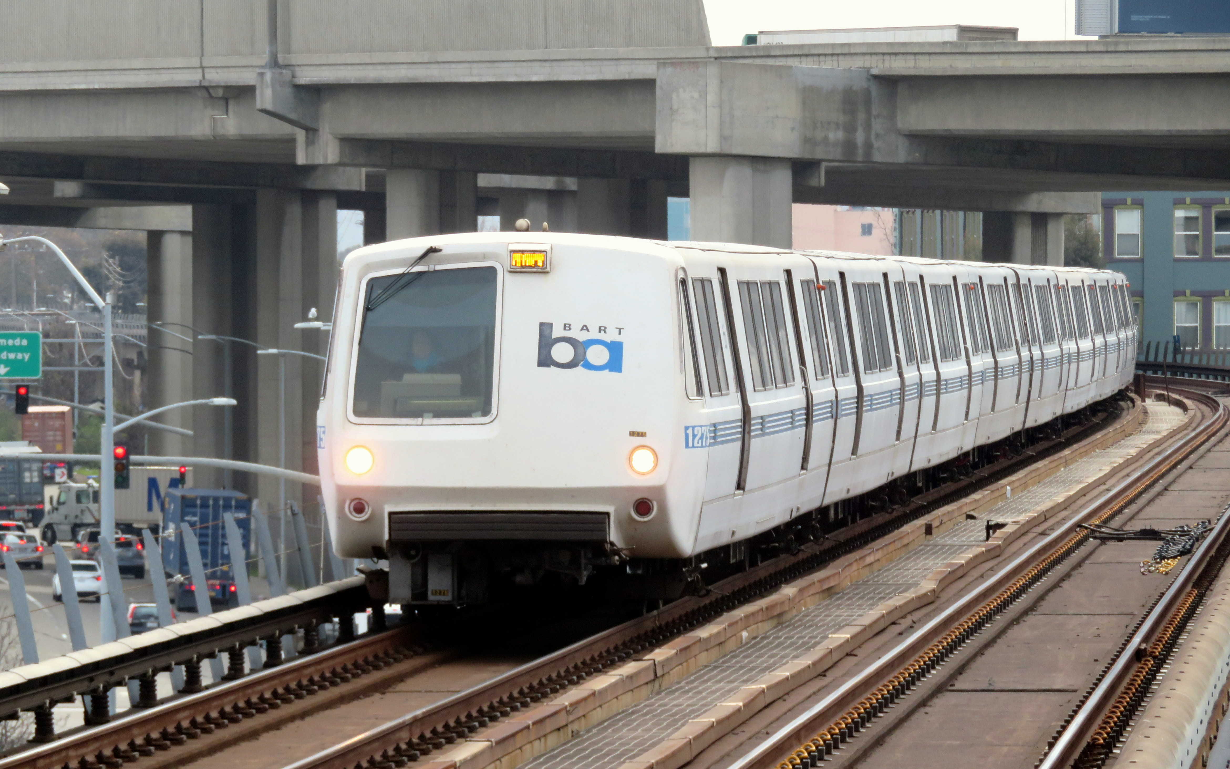 BART train westbound in West Oakland in February 2018, with the I-880 viaduct in the background